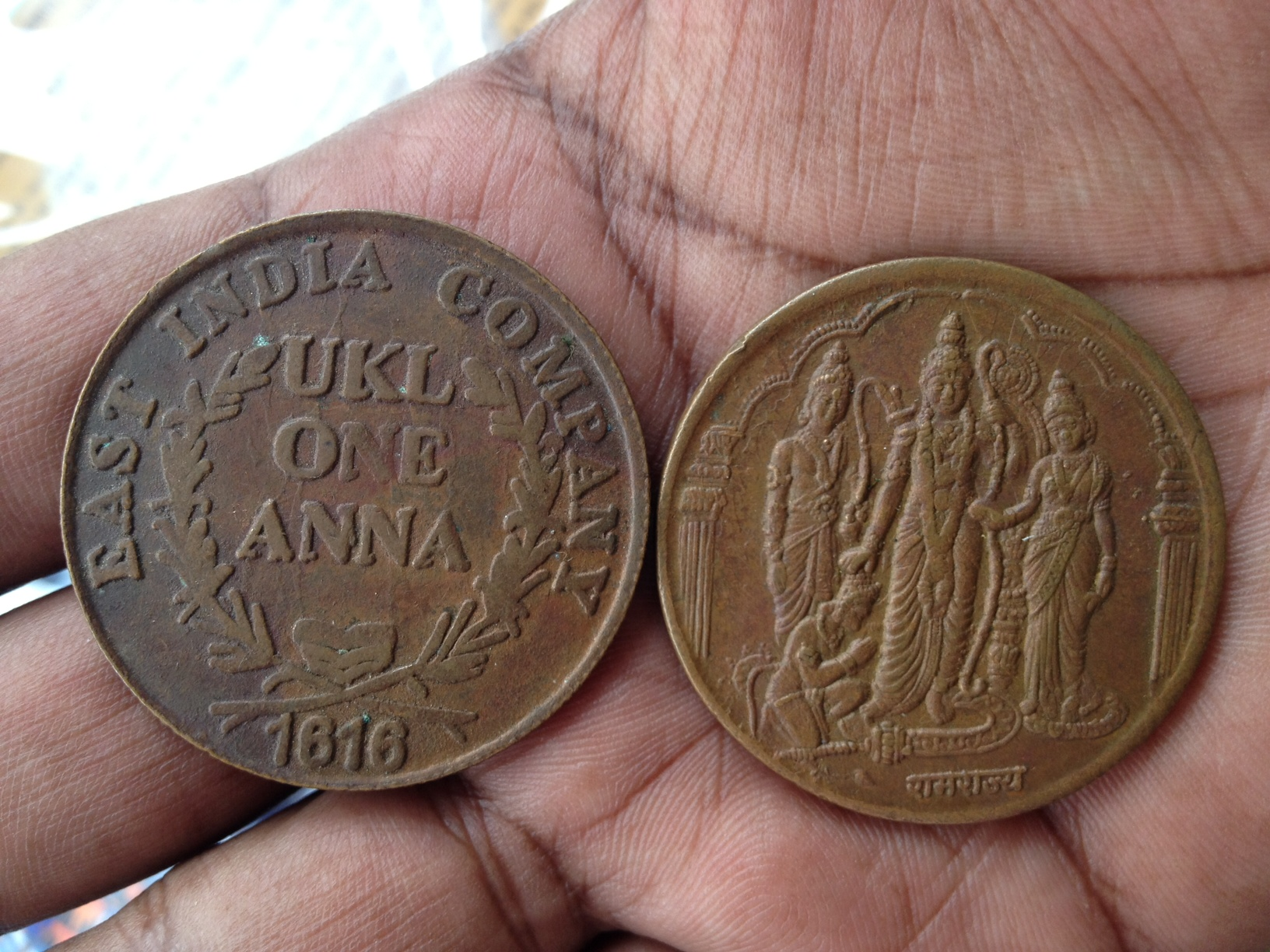 east india company one anna 1616